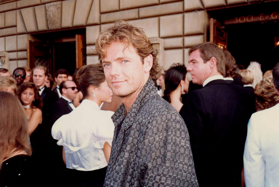 39th Emmy Awards - Sept. 1987- Permission granted to copy, publish or post but please credit "photo by Alan Light" if you can